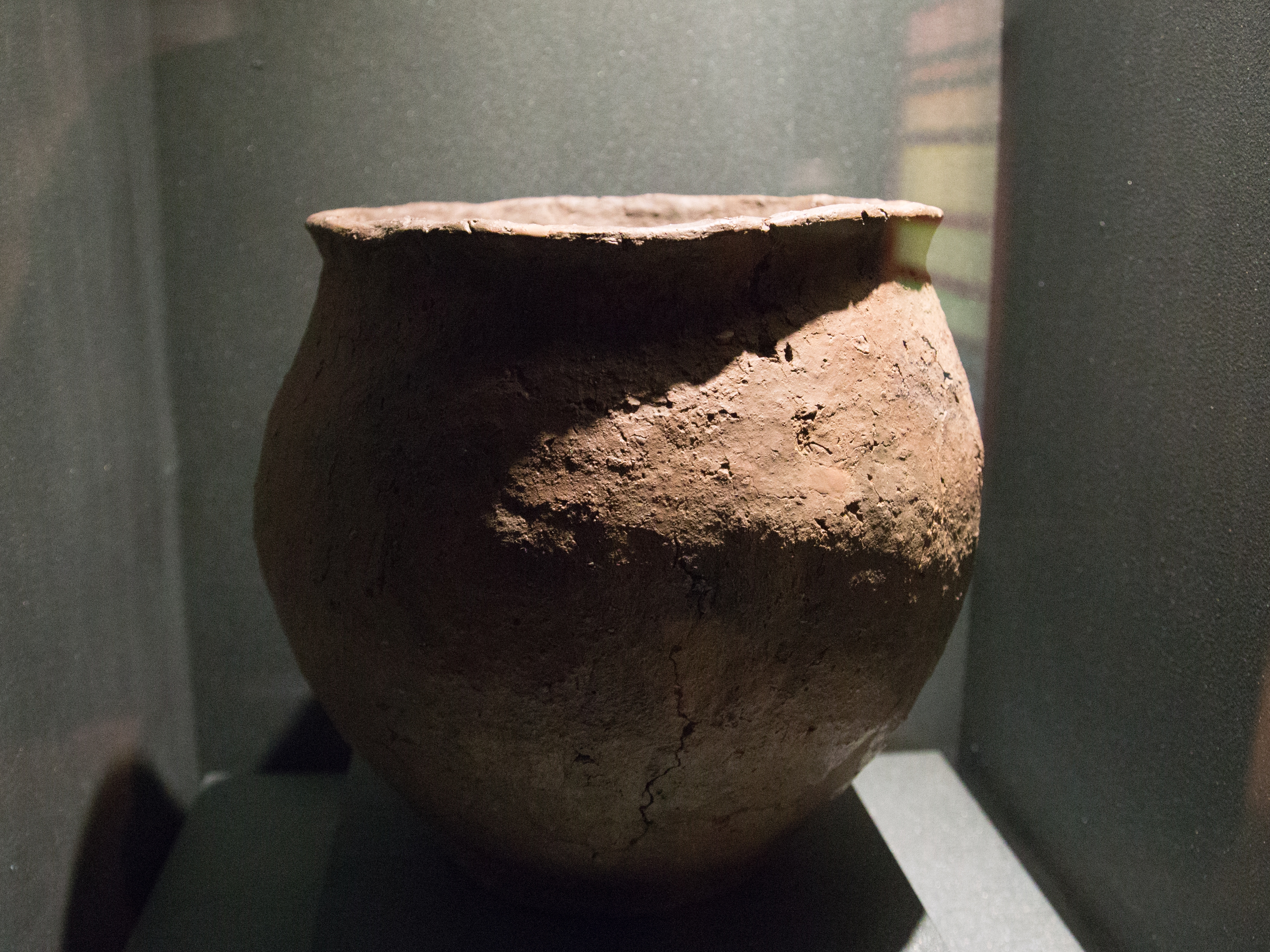 Prague type vessel, found Praha Dejvice. Earliest Slavic pottery, 550-700 AD. The City of Prague Museum.